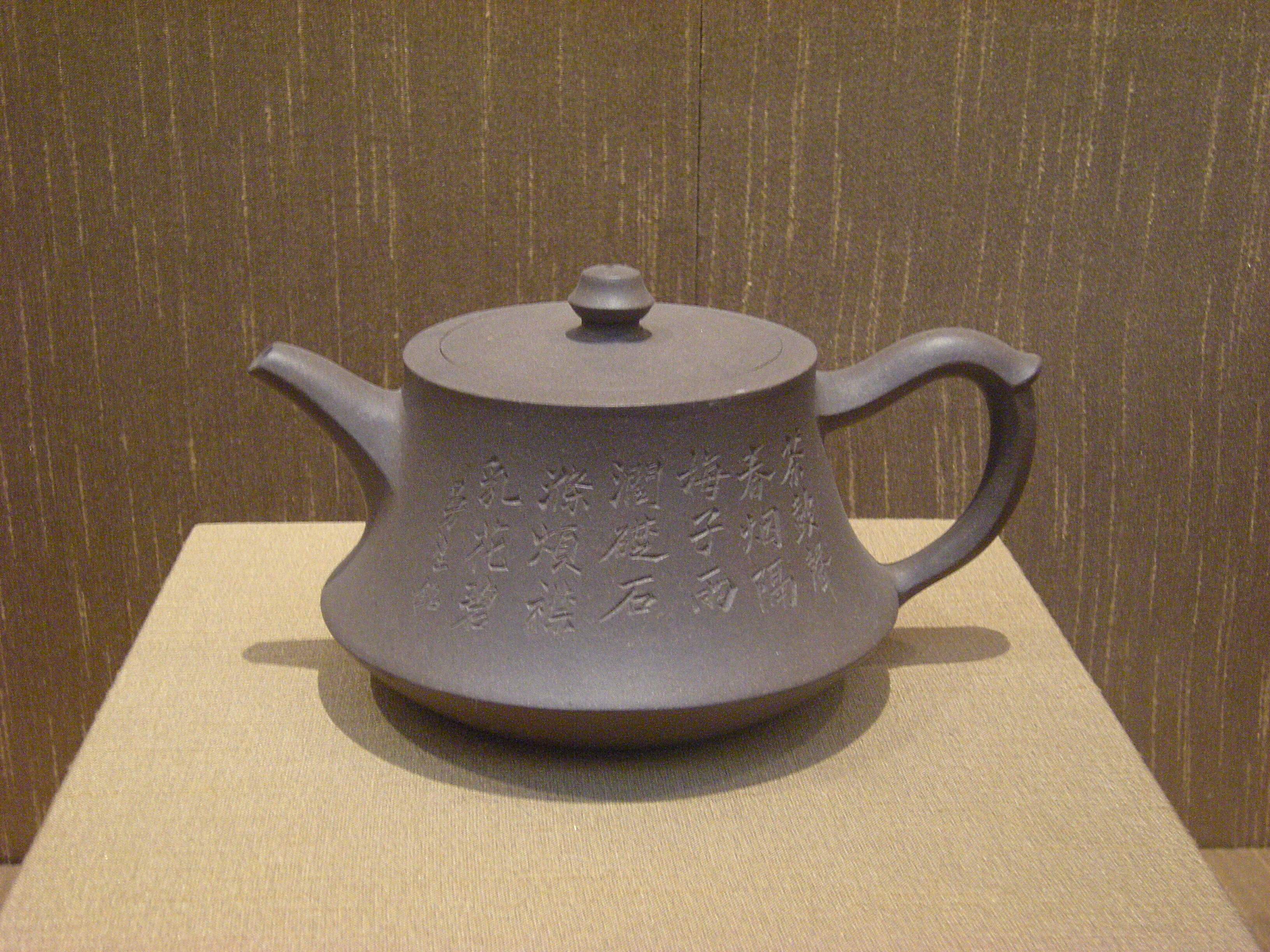 Man Sheng teapot.(made by Yang pengnian，written by Chen mansheng) in Suzhou museum。 Period：Qing Dynasty